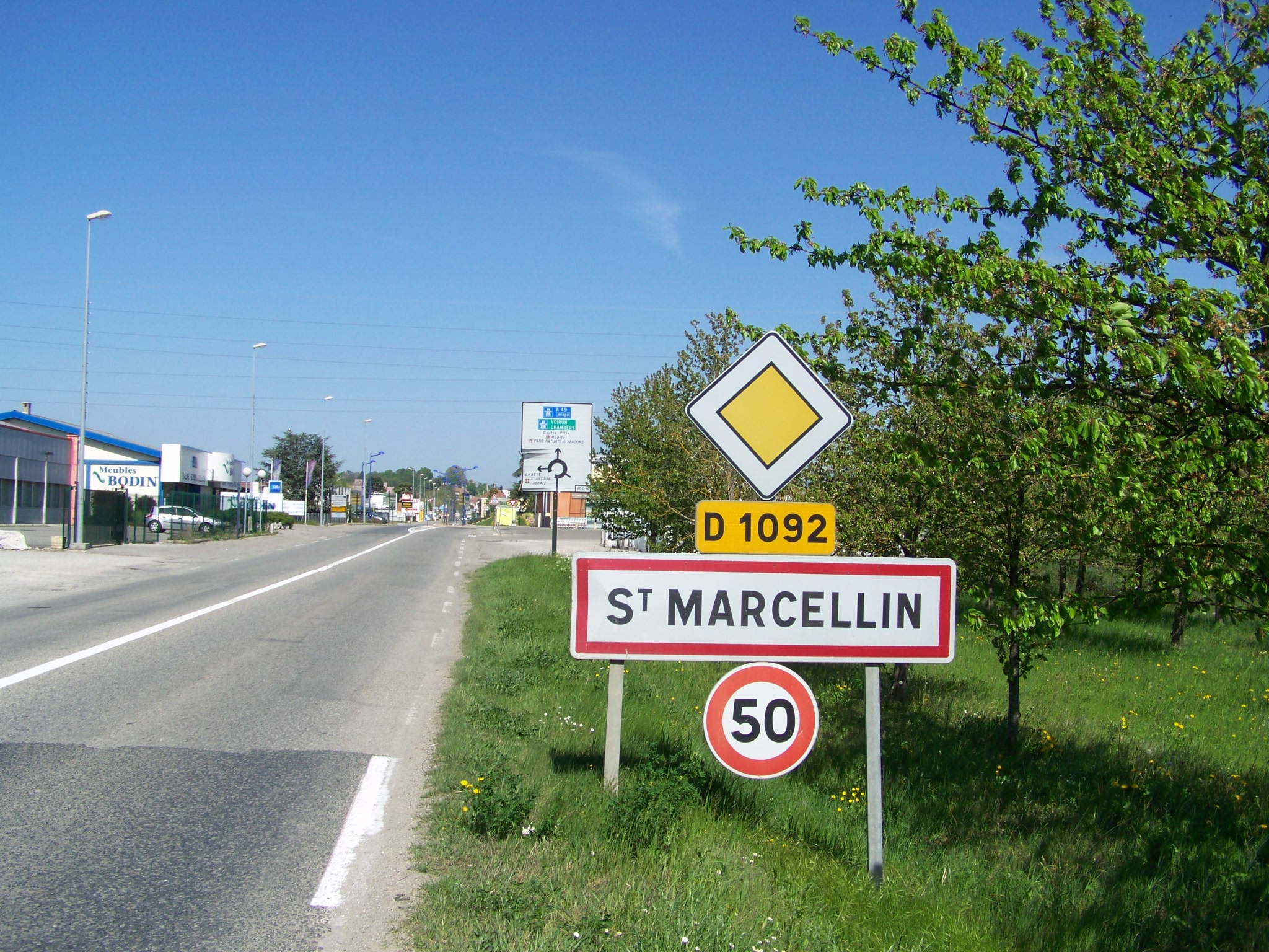 French road D 1092 entering into city of Saint-Marcellin in Isère.